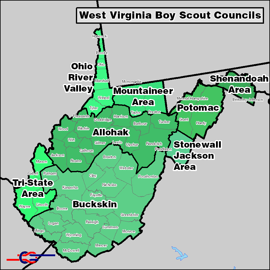 West Virginia BSA Councils - Map created using boundary information publicized by the relevant BSA councils. US Census TIGER data used for county and state lines. Council divisions are exact where they coincide with county lines and approximate in other areas. All councils on this map are in the central region.